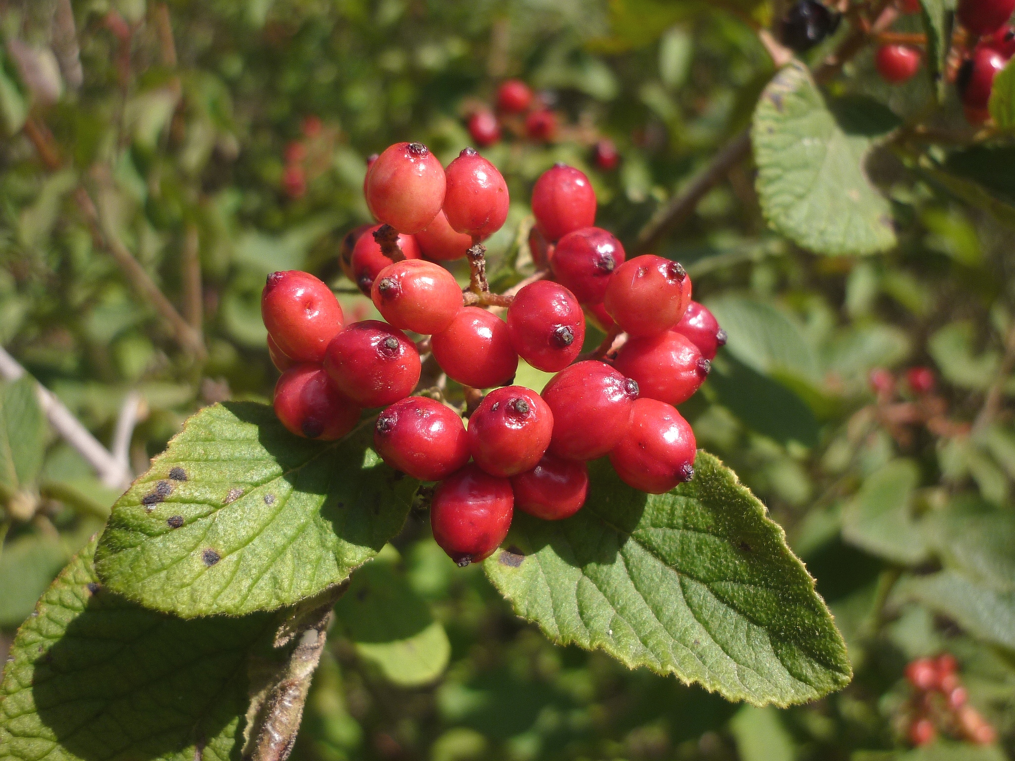 Viburnum lantana. In Torà (Segarra - Catalunya). To 570 m. altitude